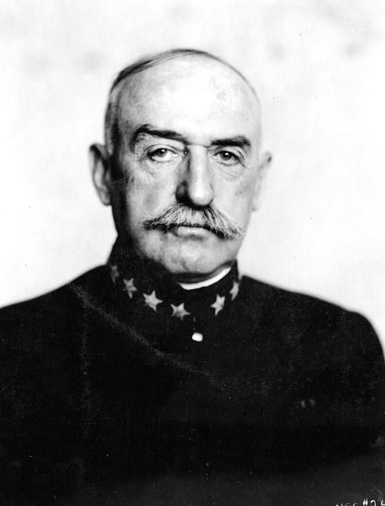 William S. Benson, 1st Chief of Naval Operations